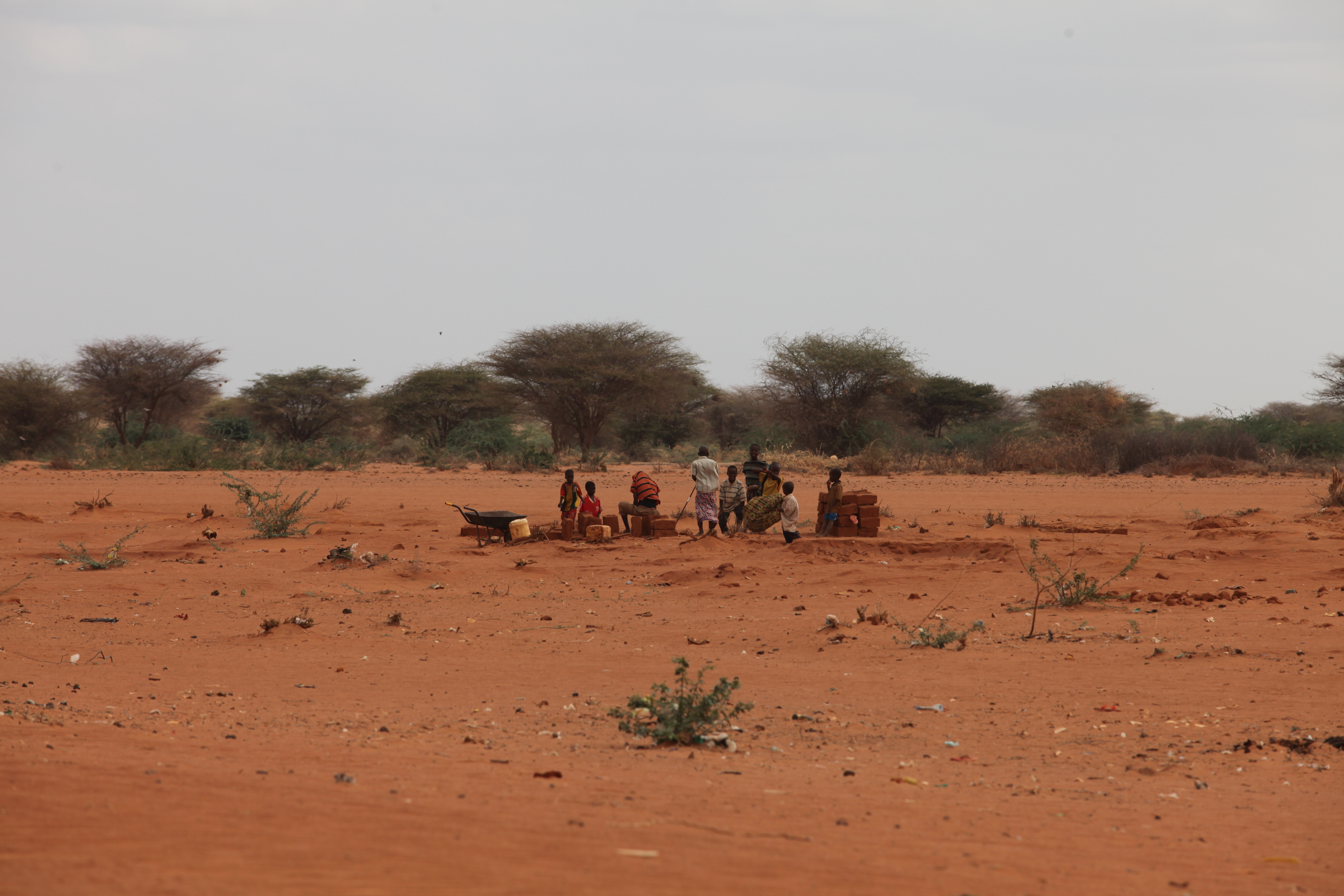 On the edge of Dadaab camp, Kenya